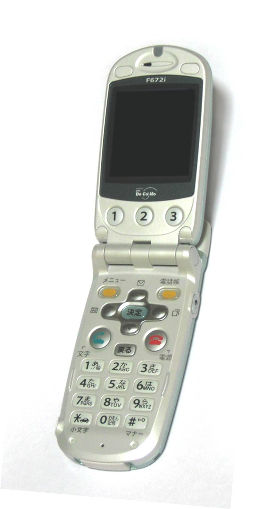 NTT DoCoMo FOMA F672i is a mobile phone.